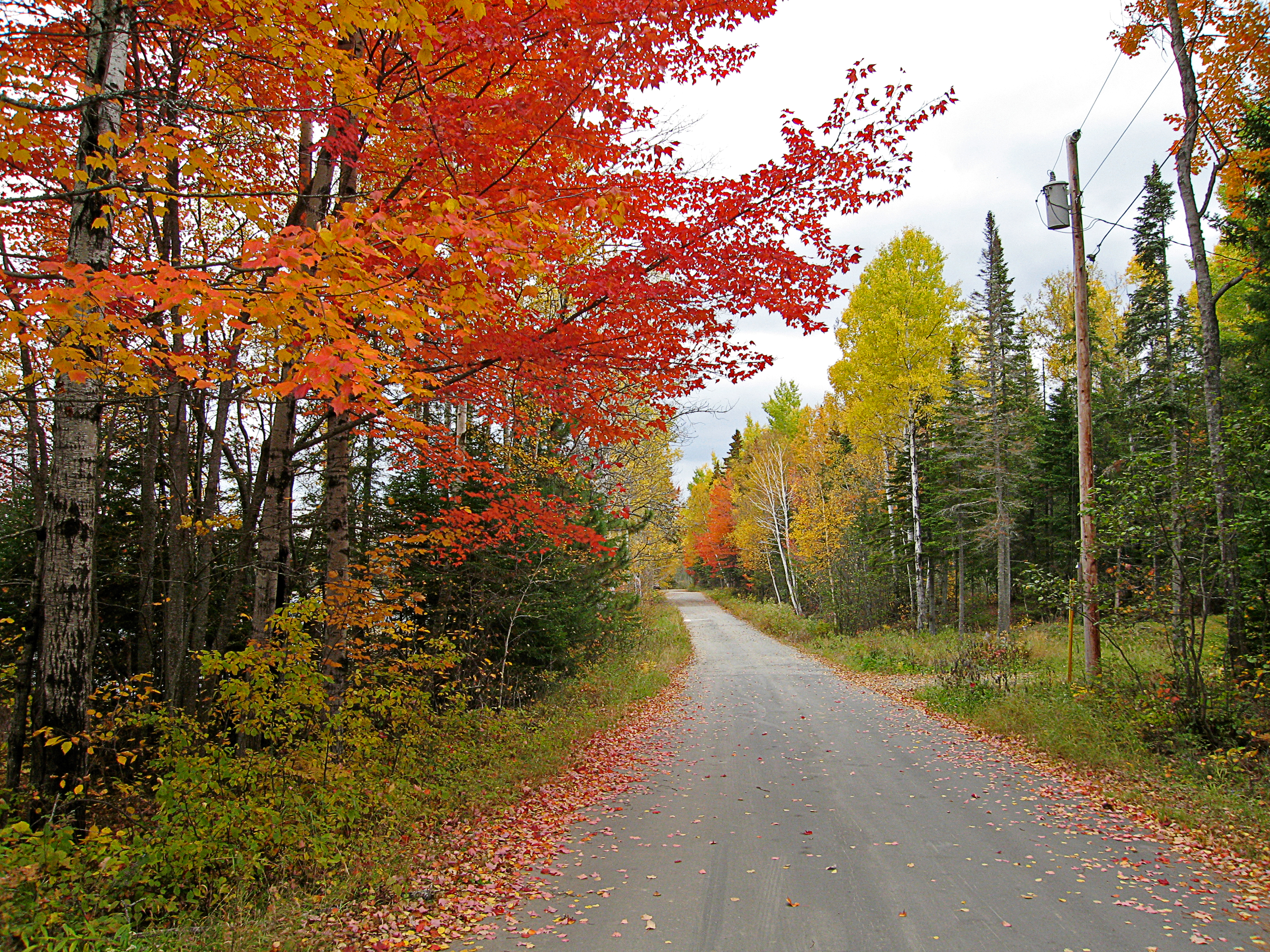 Stratton, Flagstaff, Lake Maine While visiting T's family in the Boston area, we had to spend a few days at their cabin in northwestern Maine. I'd never been to New Hampshire or Maine, and only Vermont in passing. Apparently we hit the fall color time just right, and it is extra colorful this year. Lucky me! I took a bazillion photos, which should take a while to go through and upload, but here's a start. This is the road just outside the cabin, Dead River Road, near the town of Stratton, Flagstaff Lake, Maine. Foliage at left is Acer rubrum.